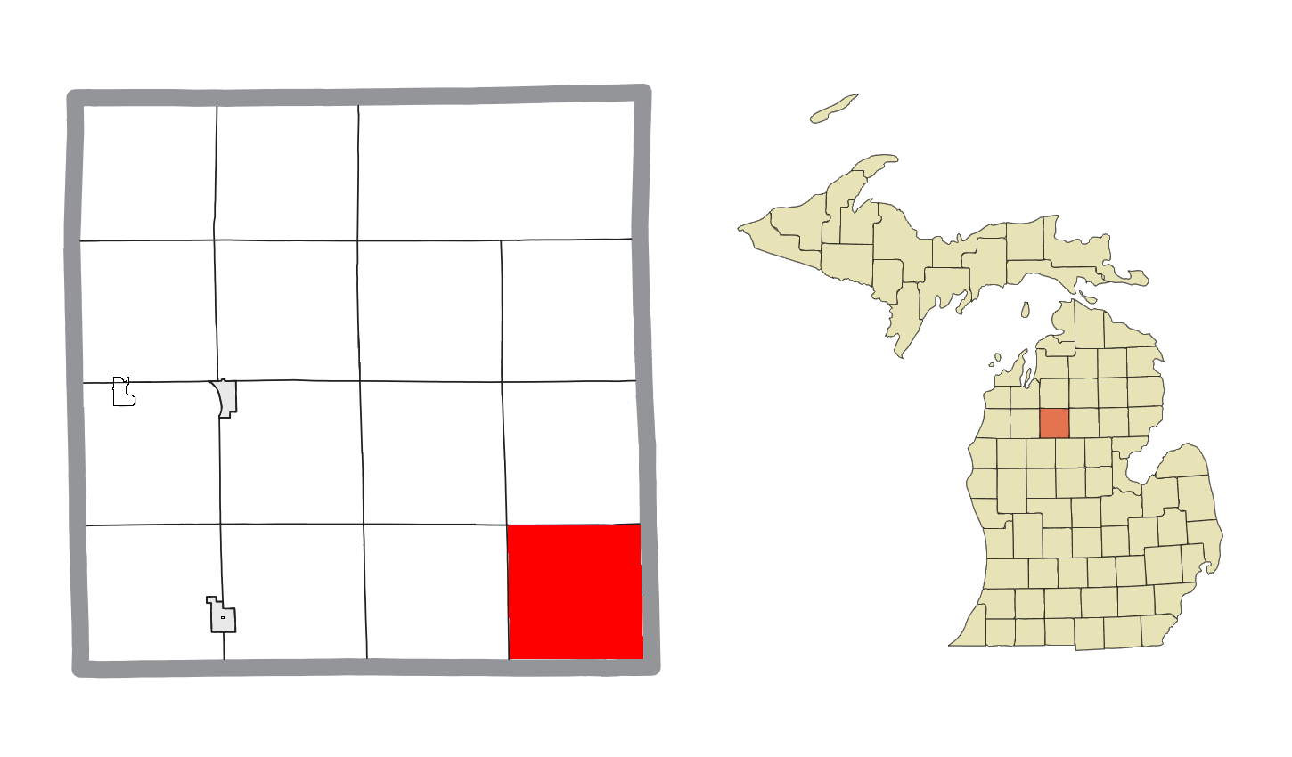 Holland Township, MI